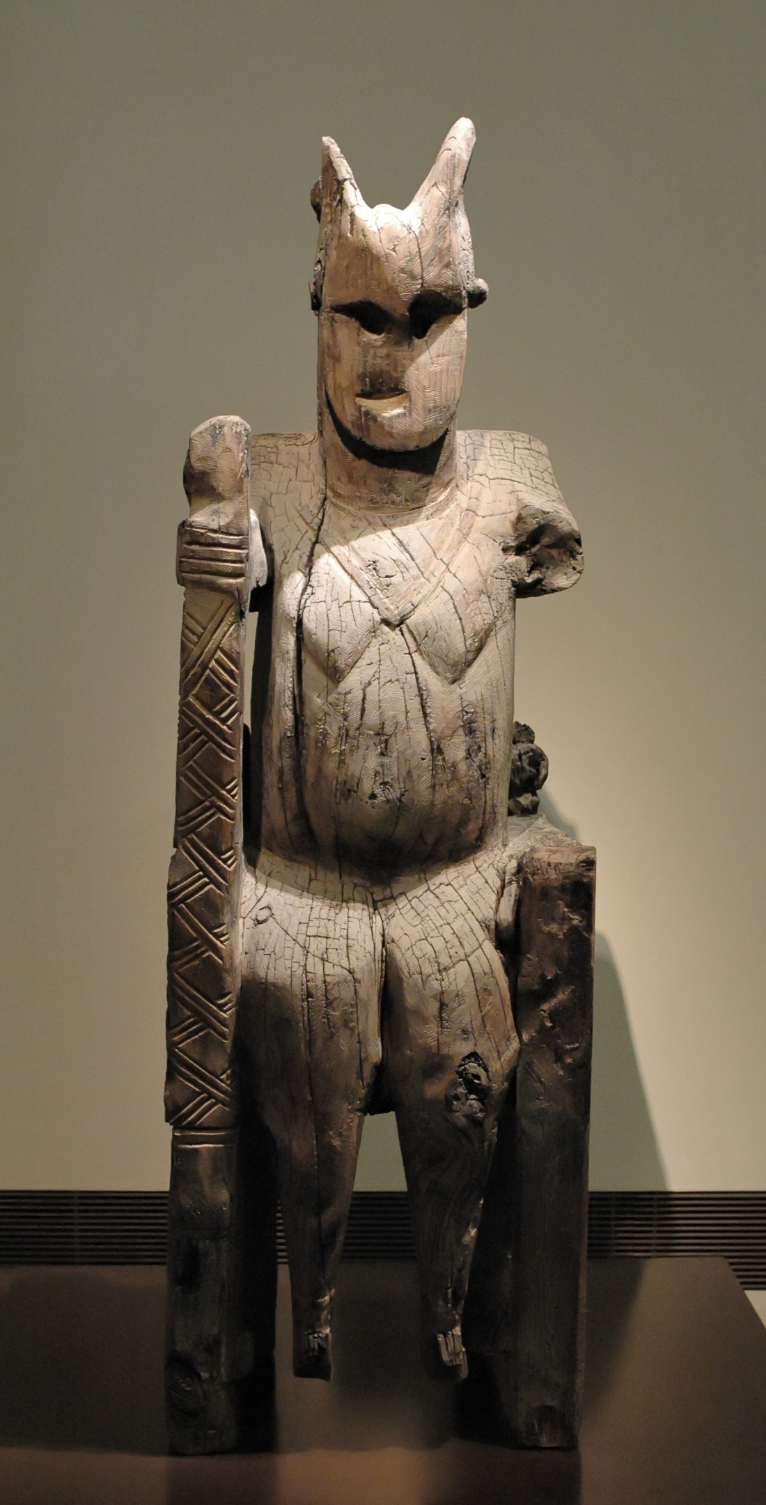 Woman seating on a throne, sculpture of the Kafirs Bashgali. Pinewood, found in the Kalash Valley (Pakistan), end of the 19th century, beginning of the 20th century.